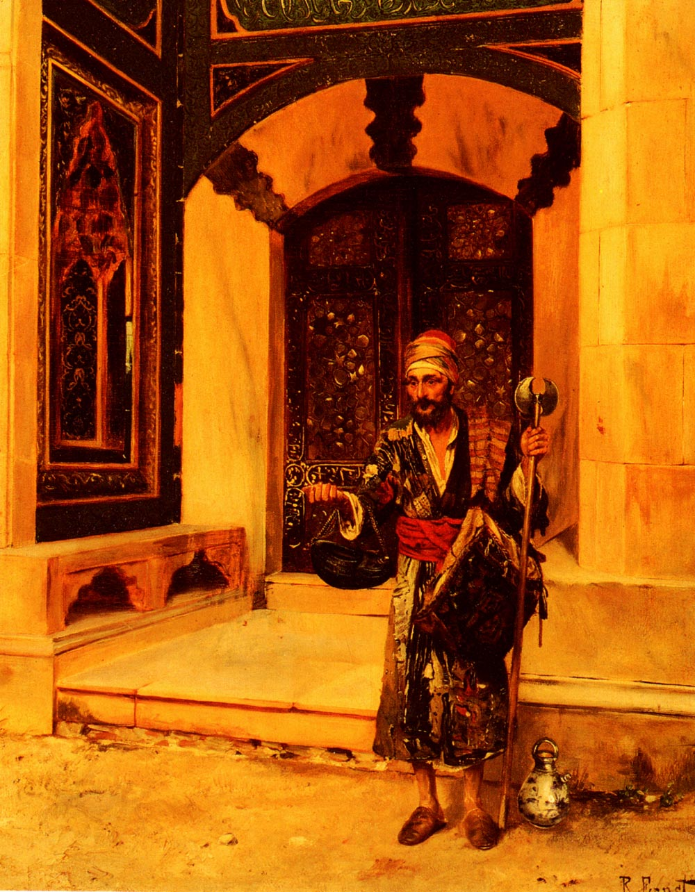 The Beggar